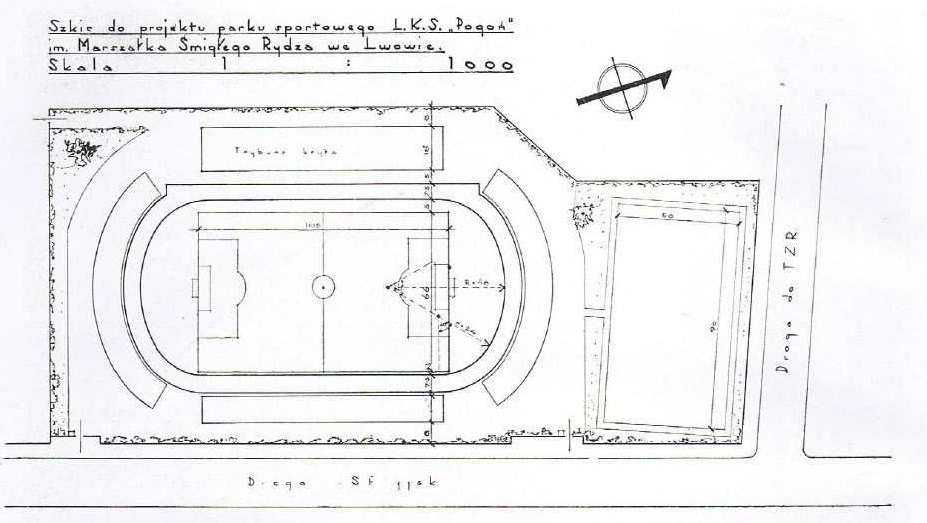 Sketch of planned modernisation of Pogoń Lwów's stadium